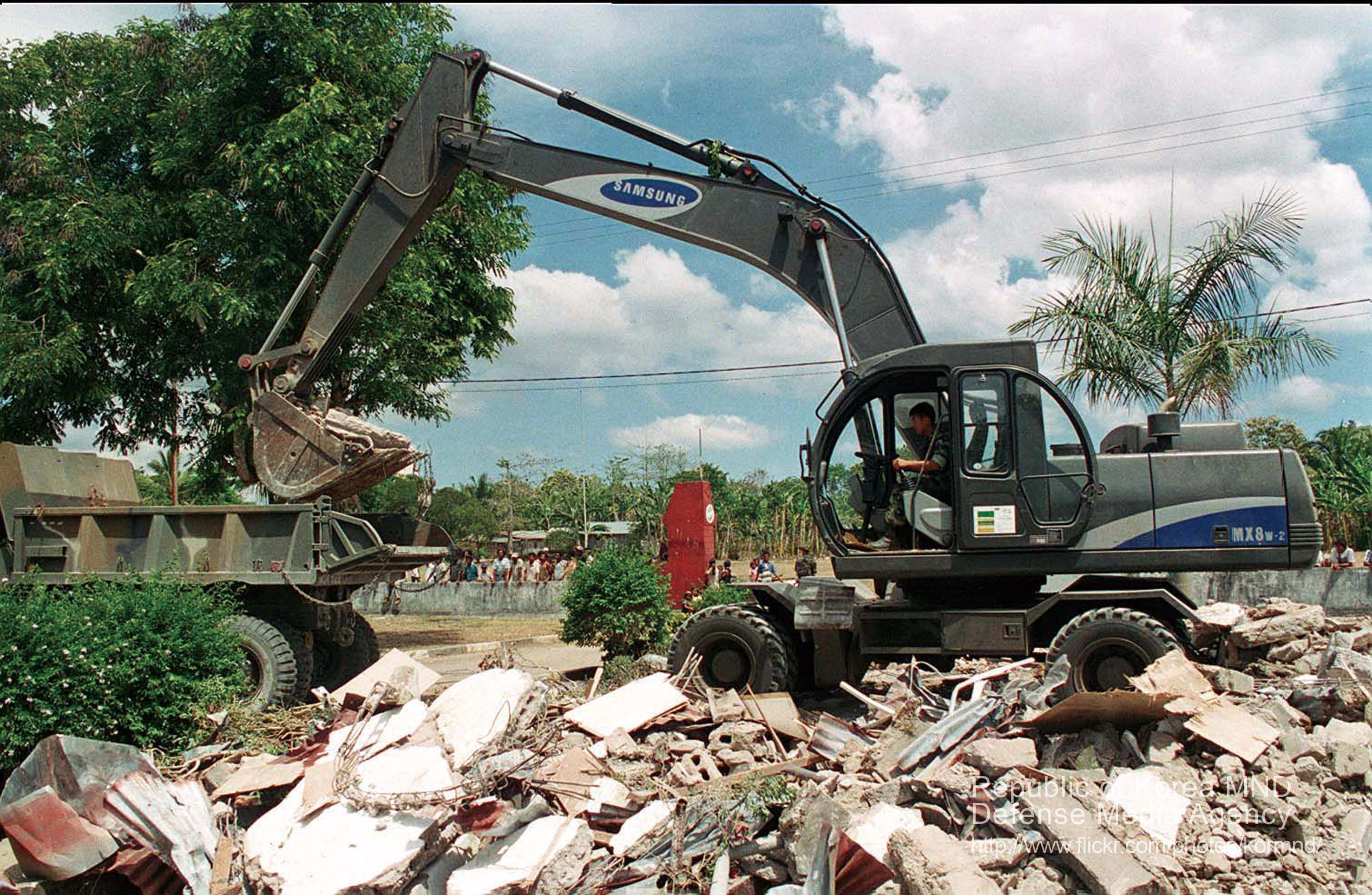 2010 국방화보 Rep. of Korea, Defense Photo Magazine 동티모르 상록수부대가 중장비를 동원, 인도네시아군이 파괴한 건물 잔해를 철거하고 있다. Sangroksu Unit in East Timor are taking down what’s left of a building after it’s destruction by Indonesian military.